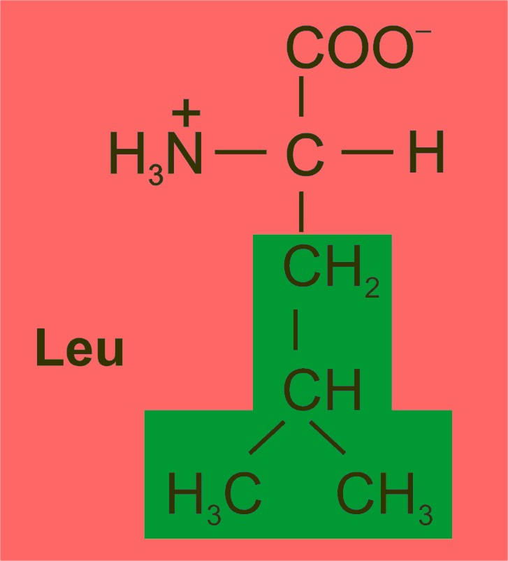 leucine amino acid formula jpg